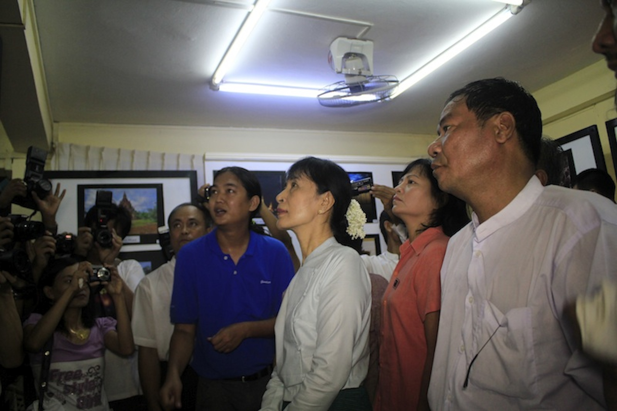 Soe Win (R), bodyguard of Myanmar's democracy leader Aung San Suu Kyi is seen at NLD headquarter in 23 May 2011 in Yangon, Myanmar.